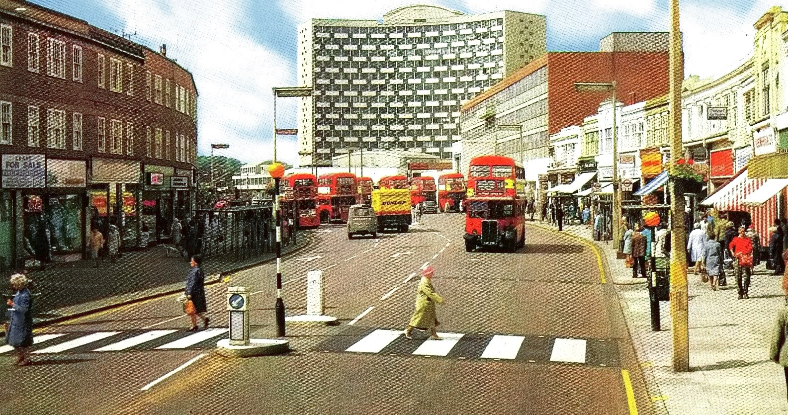 Morden in the 1960's and every bus is an RT.